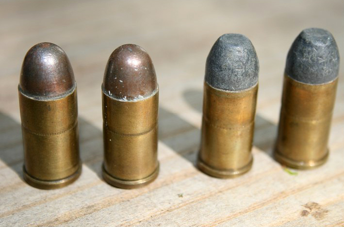 Left two: Remington/UMC .45 auto rim. right two: Peters 45 auto rim